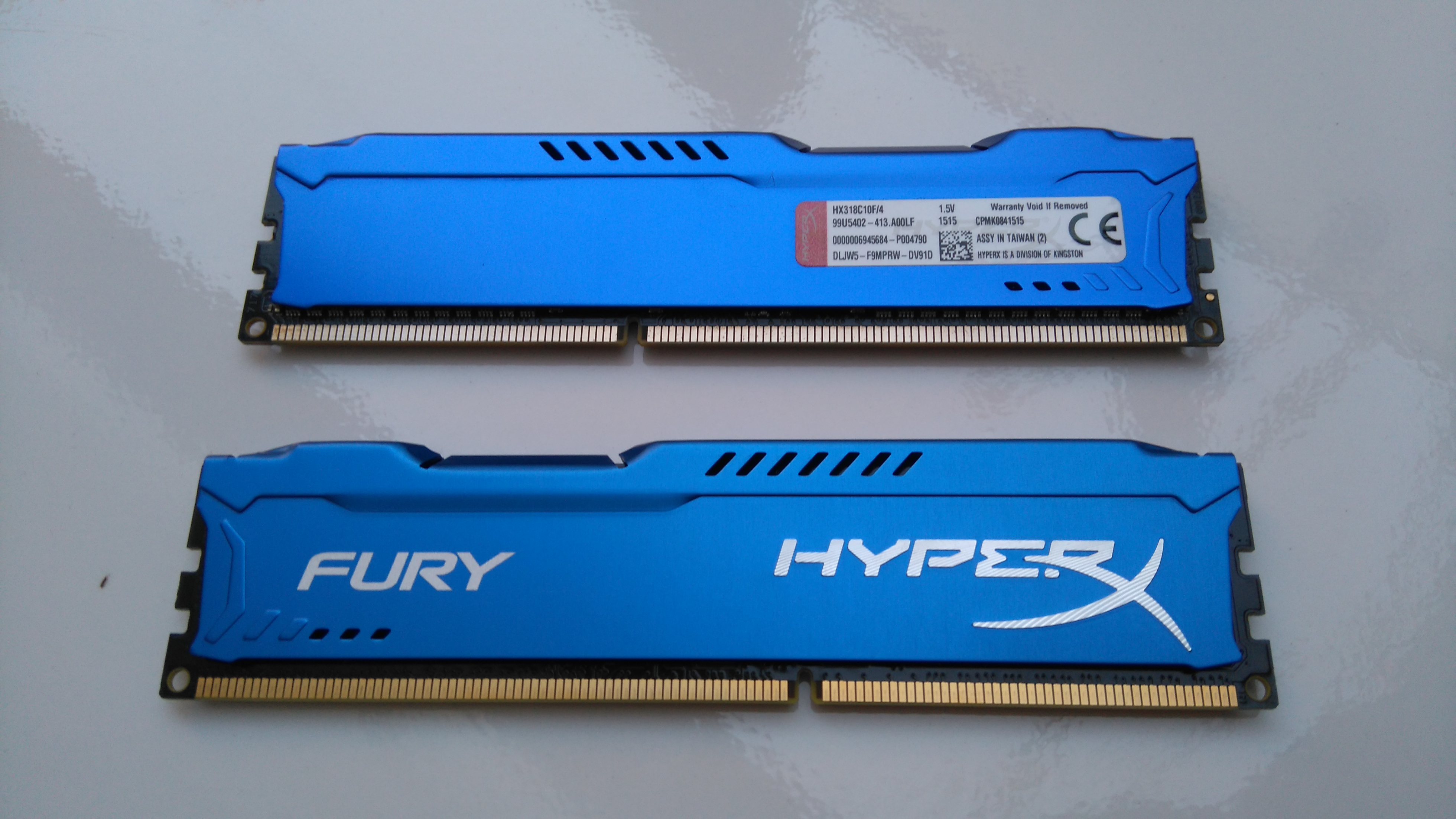 Front and back of HyperX DDR3 RAM memory modules.